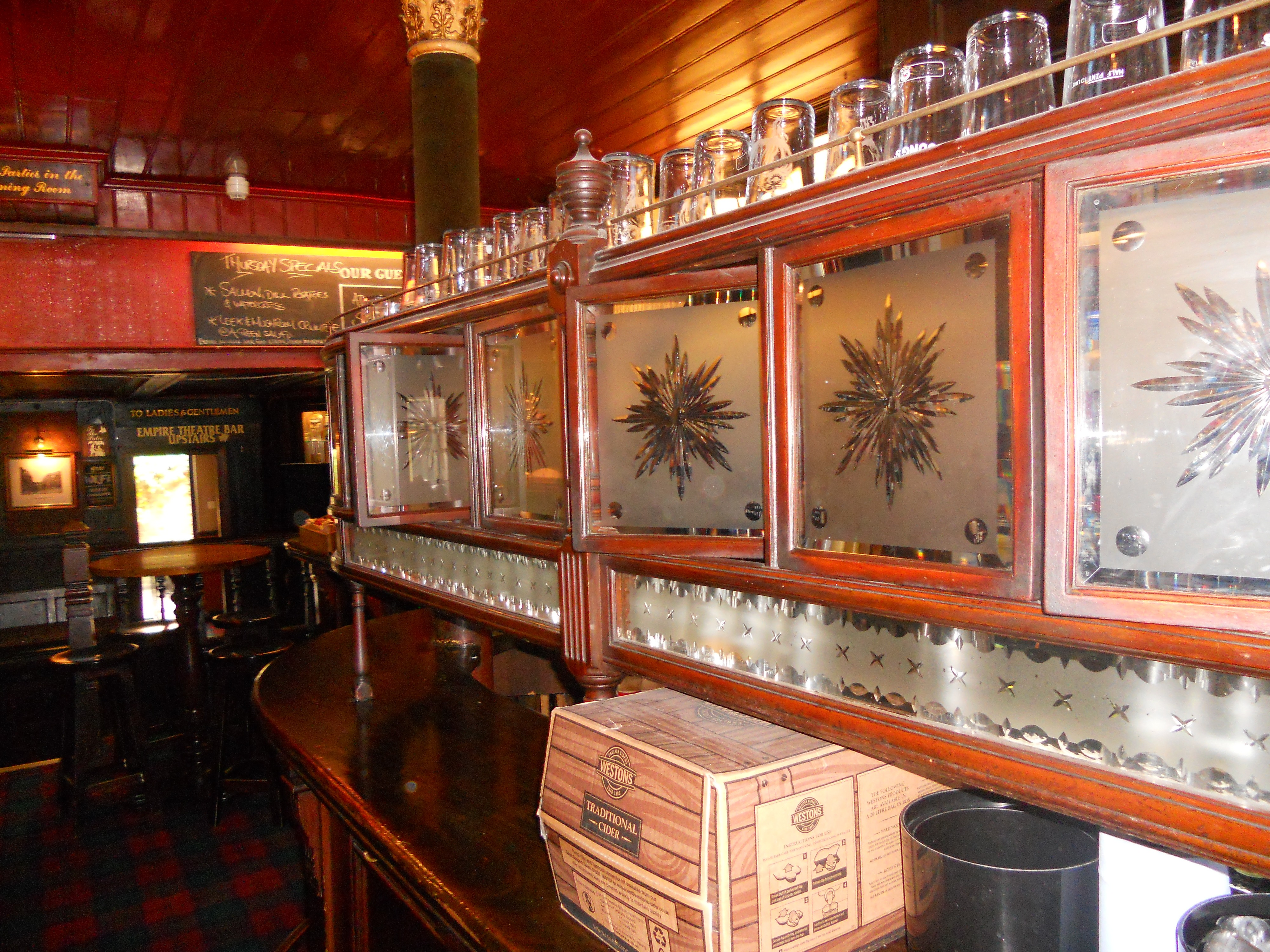 Snob screens in the main bar of The Lamb